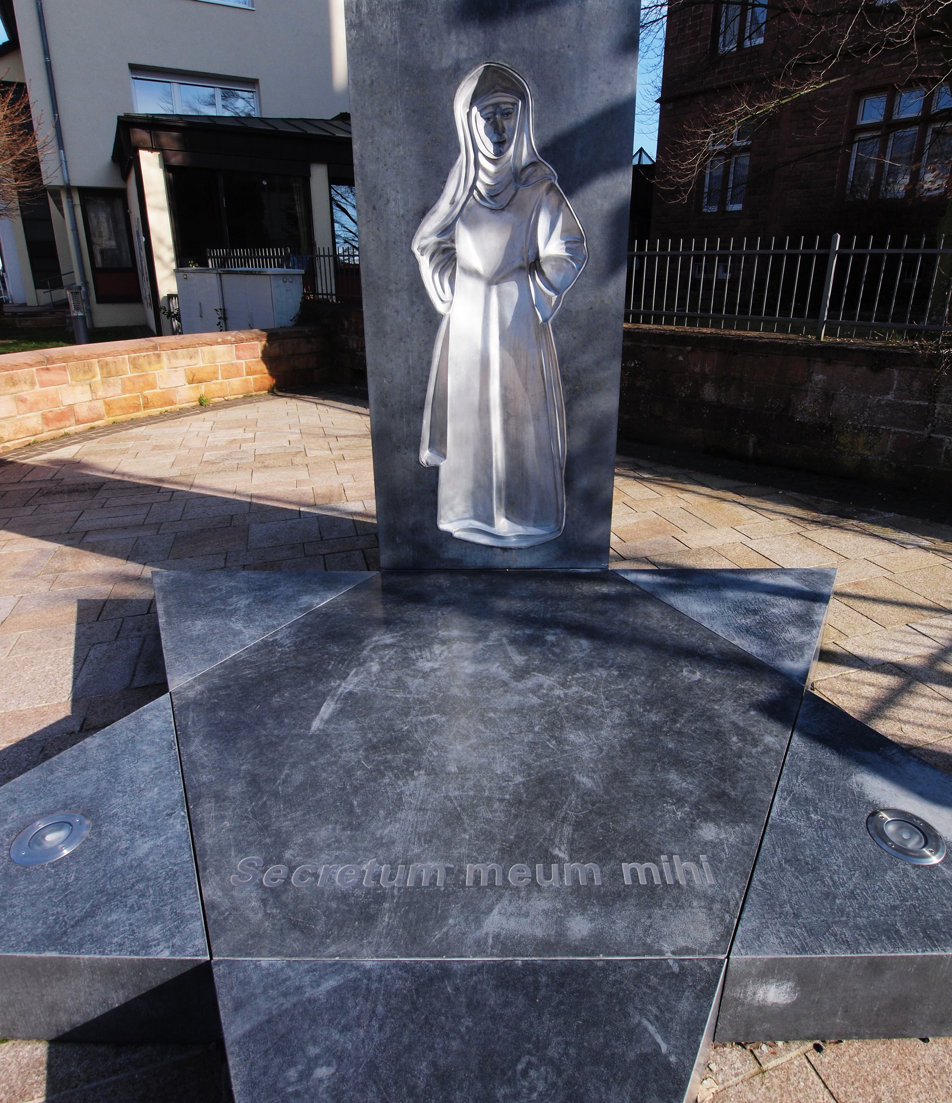 Edith Stein memorial in front ot the church where she was baptized